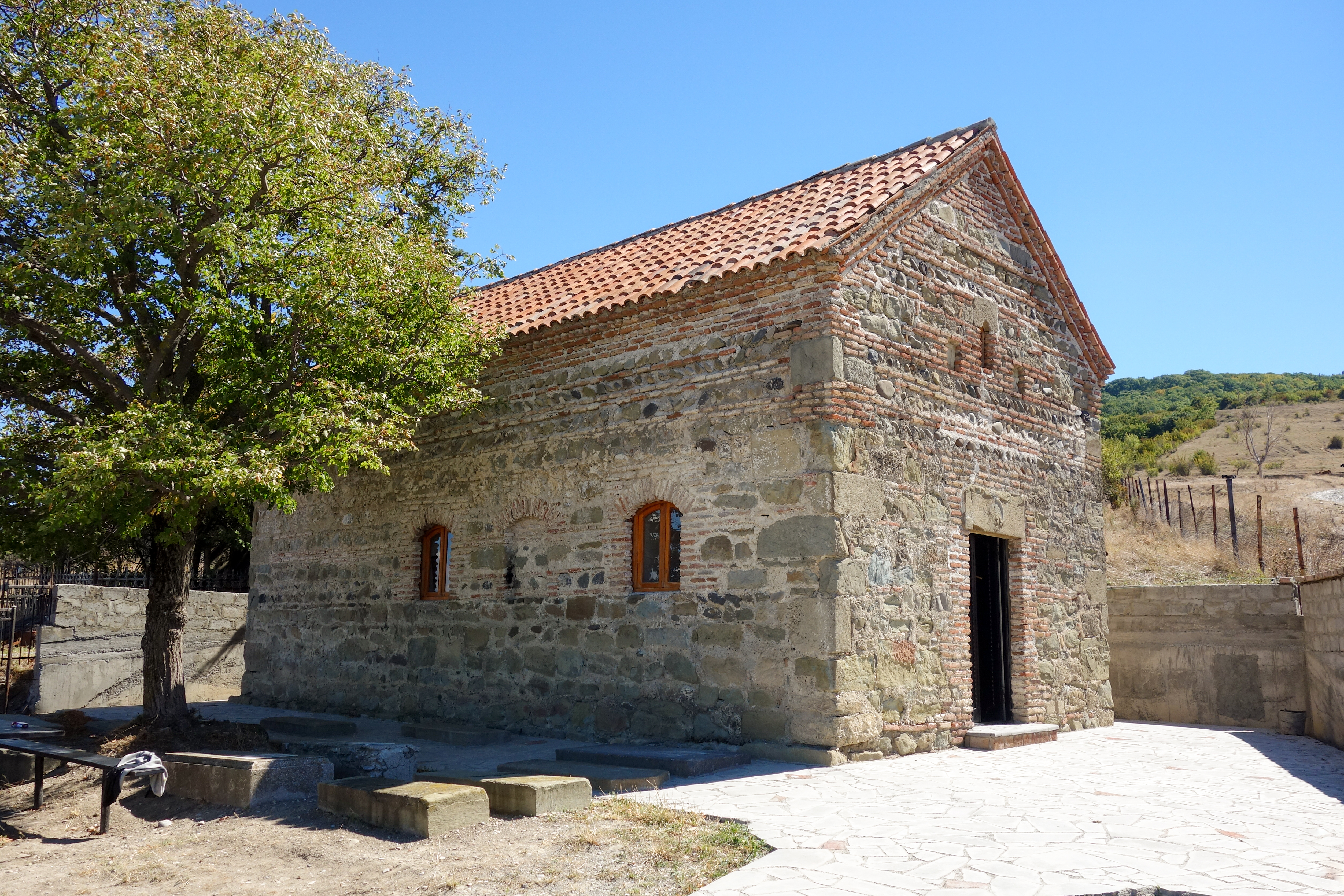 Mother of God Church, Gorovani, Mtskheta-Mtianeti, Georgia